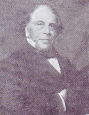 Portrait of August Abendroth (detail)